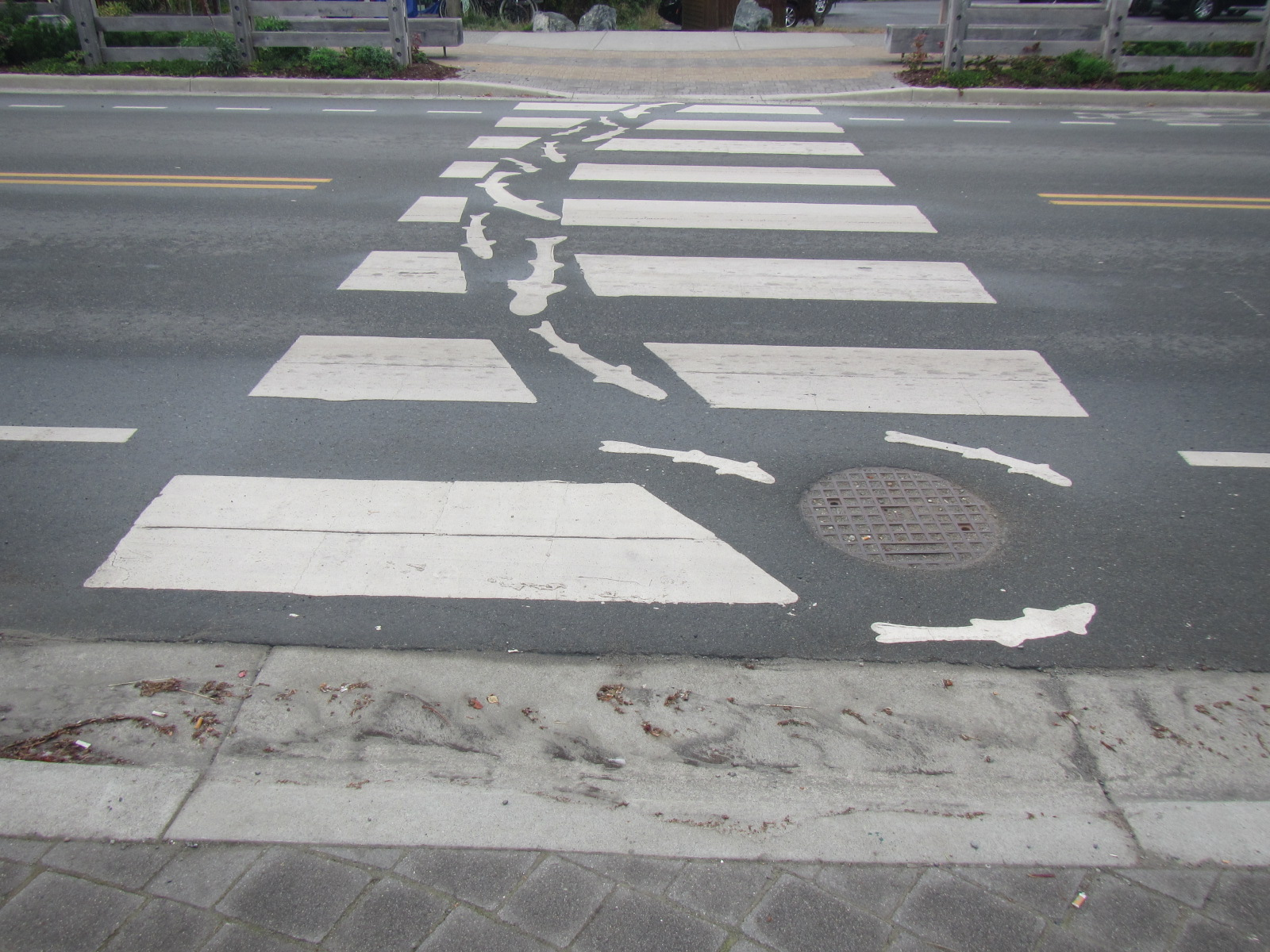 Crosswalk design with artwork depicting ocean life, in Tofino, British Columbia.